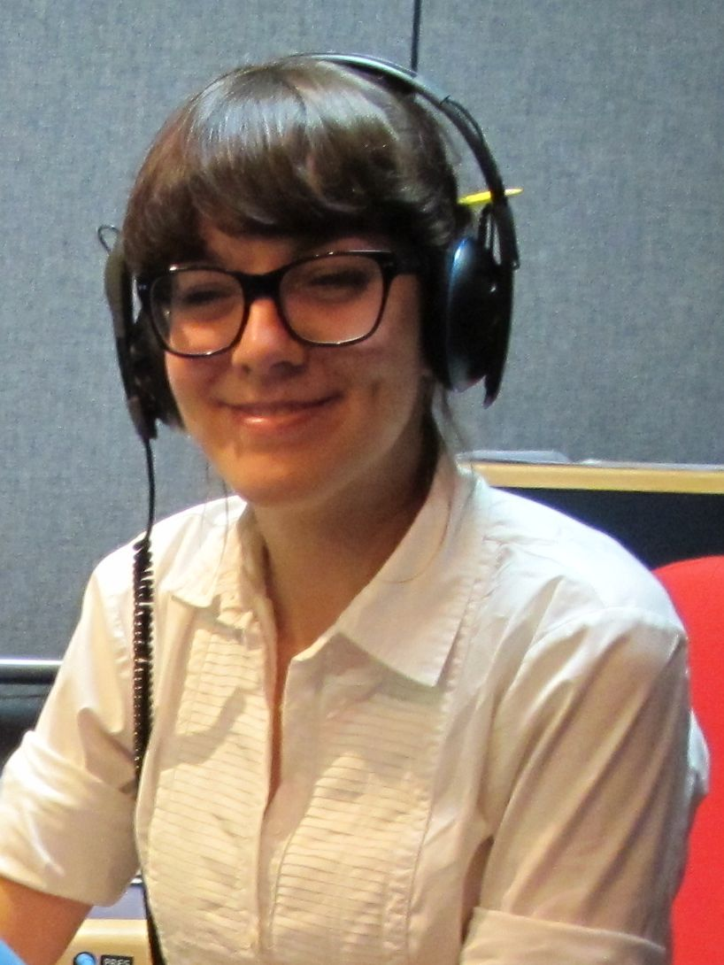 Jamillah Knowles in the studio on 14 July 2010 for an 'Outriders' recording.